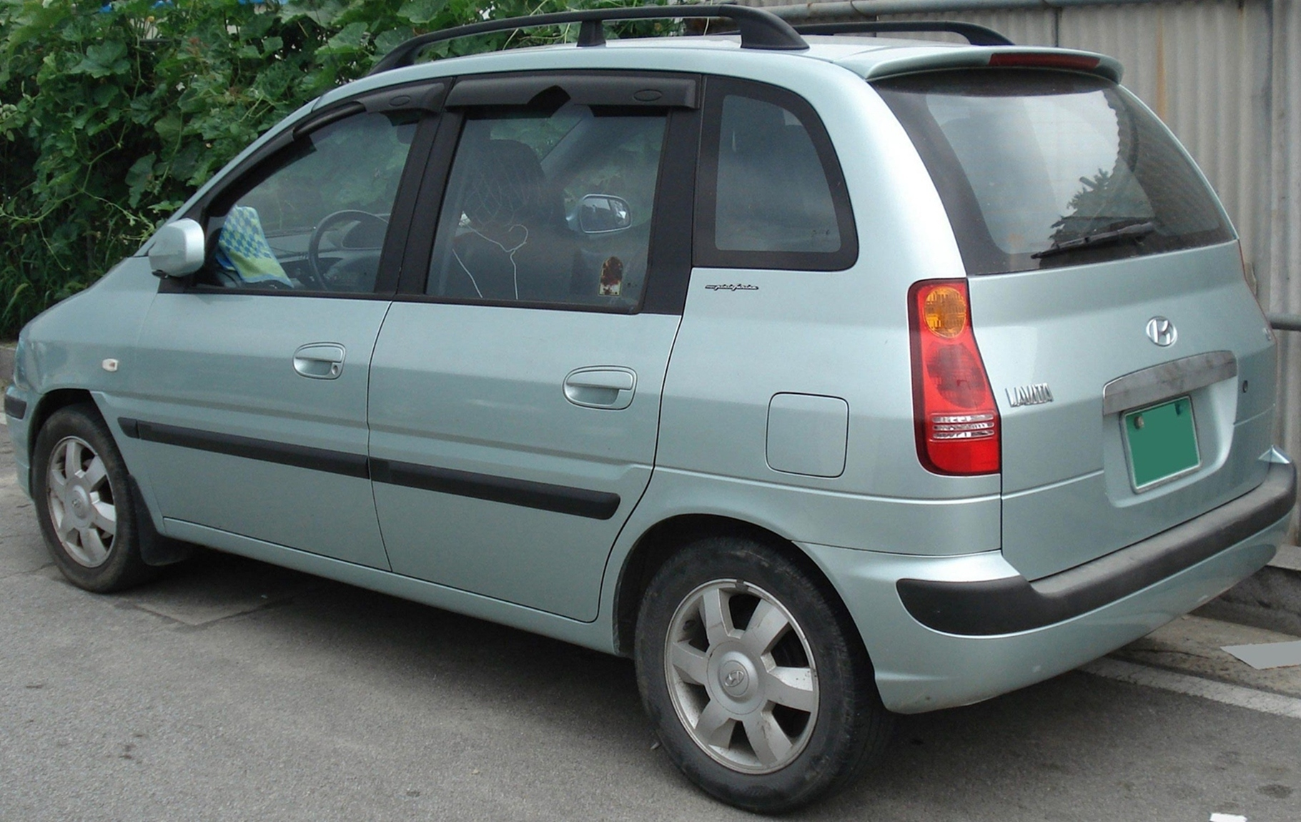 Hyundai Lavita